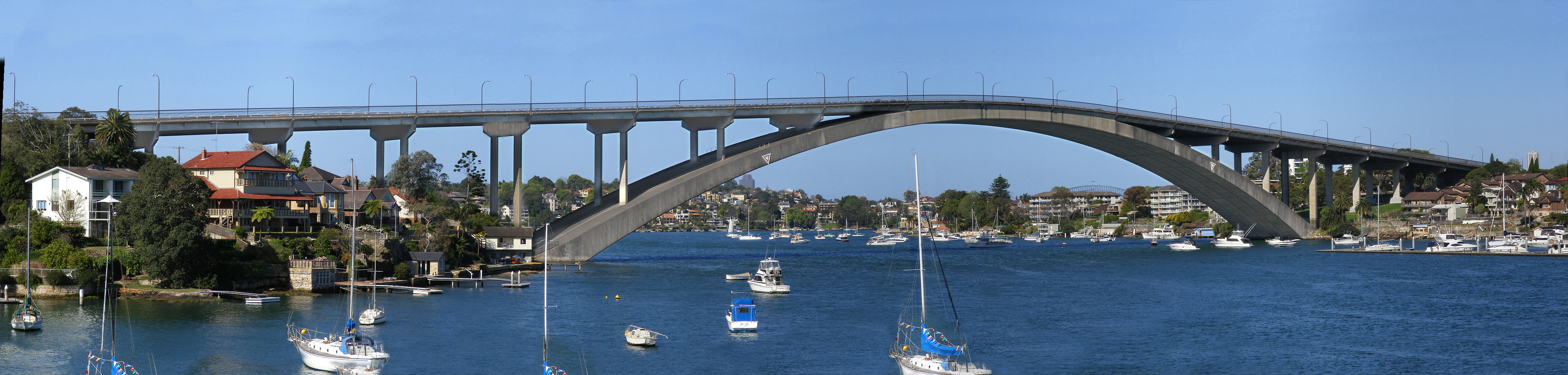 Gladsville Bridge